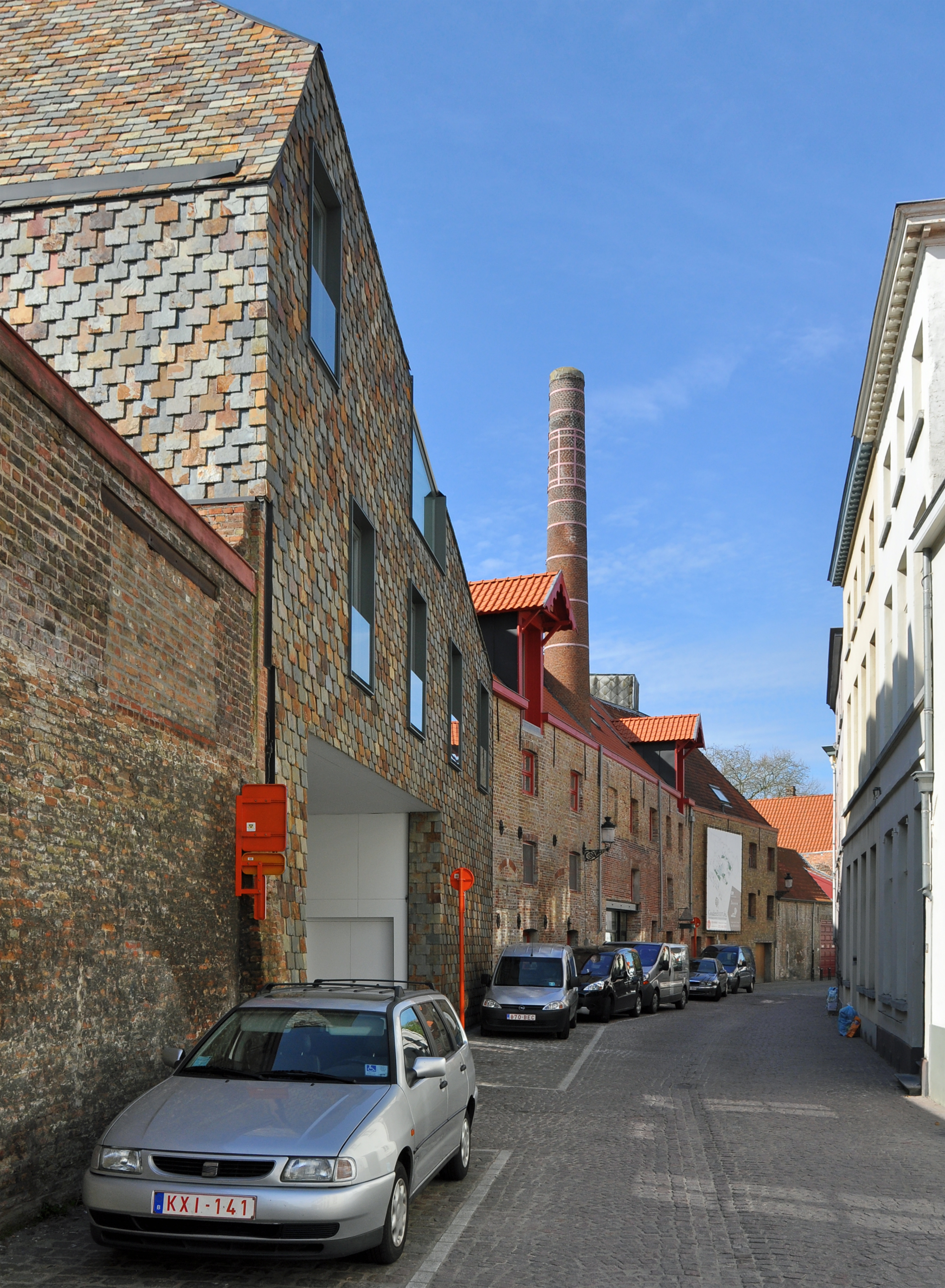 Bruges (Belgium): Verbrand Nieuwland (street)